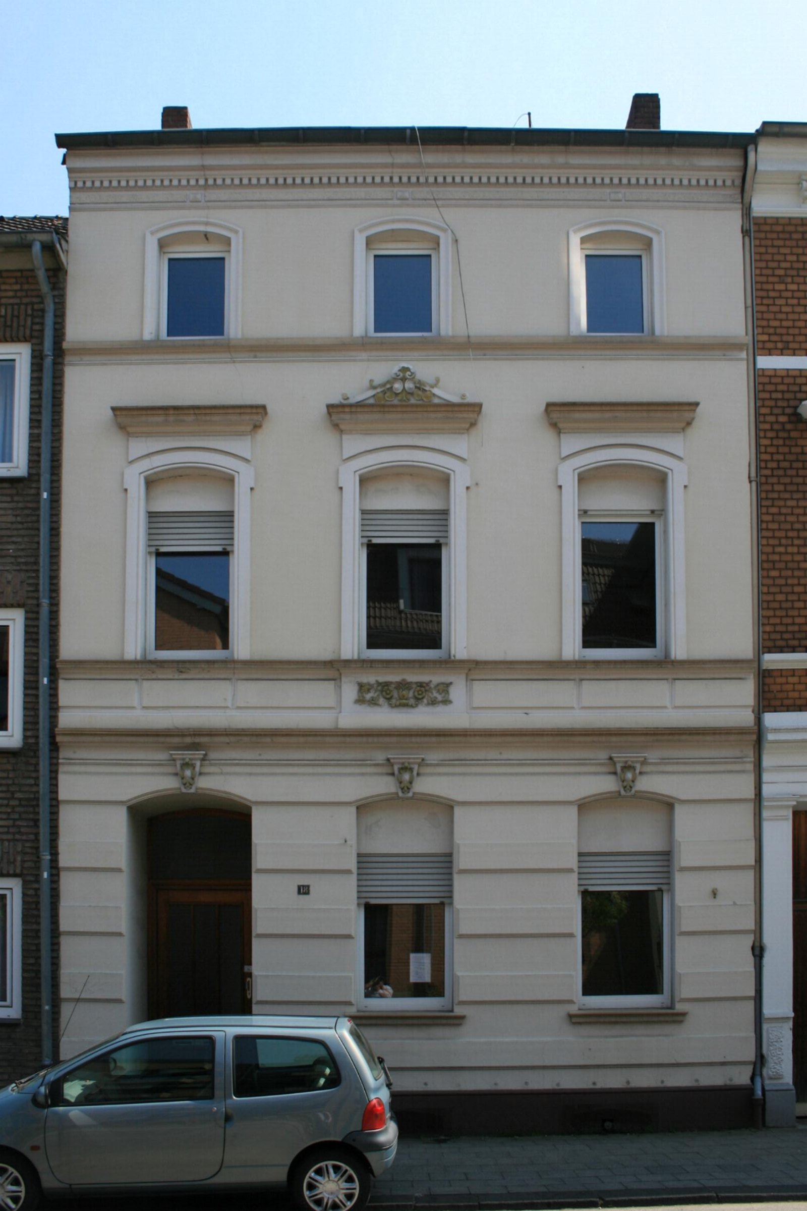 Cultural heritage monument No. Sch 013 in Mönchengladbach